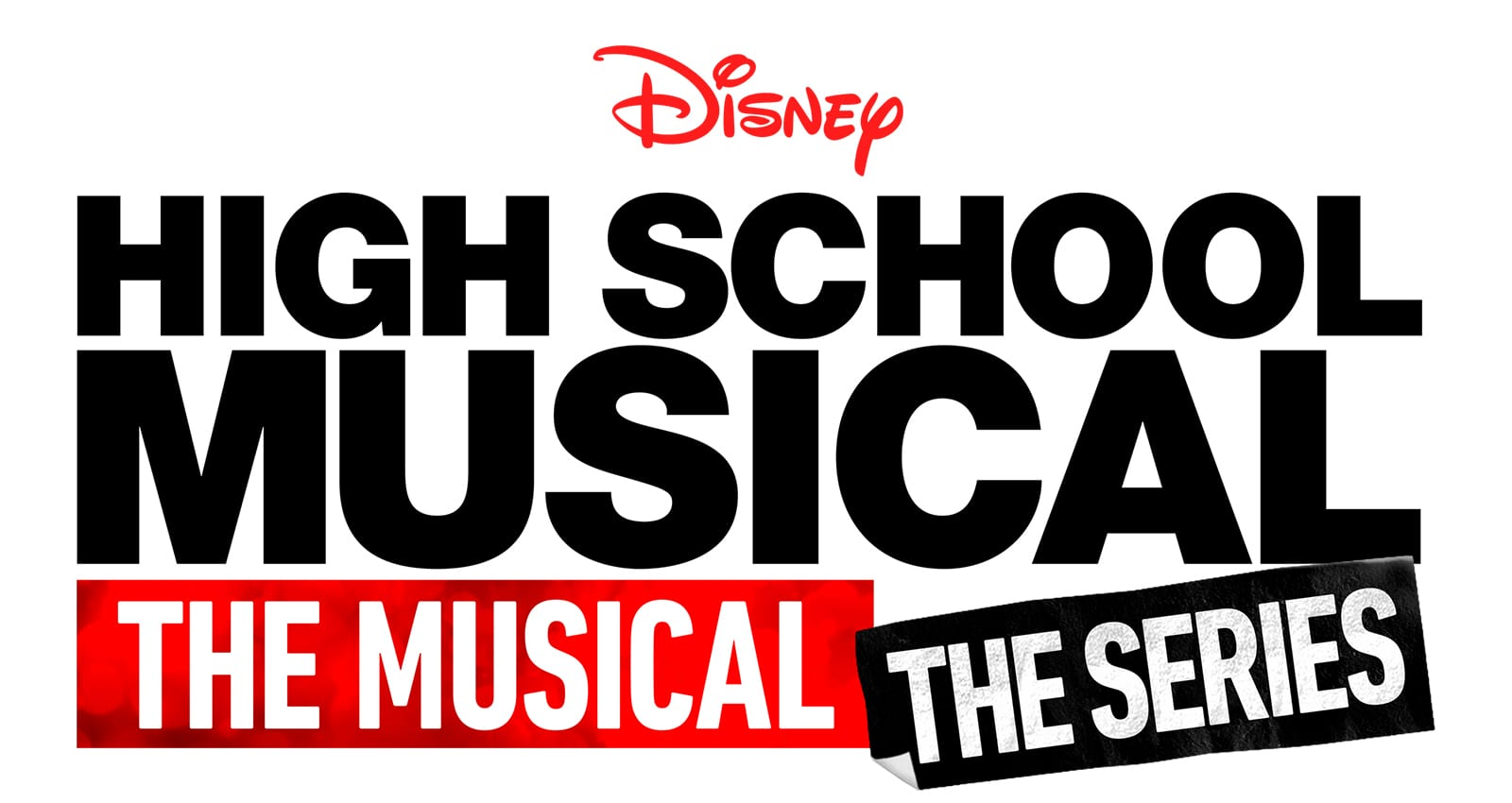 This is a logo owned by Disney+ for High School Musical: The Musical: The Series.